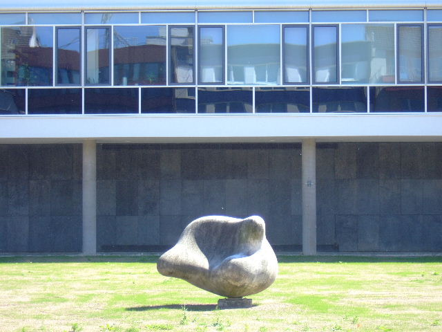 work: Die Wolkenschale sculptor:Jean Arp location: Friedrich Wilhelms University Library, in Bonn, Germany. date: 1961. material: bronze.